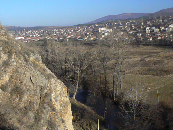 Town Zemen and river Struma, Bulgaria